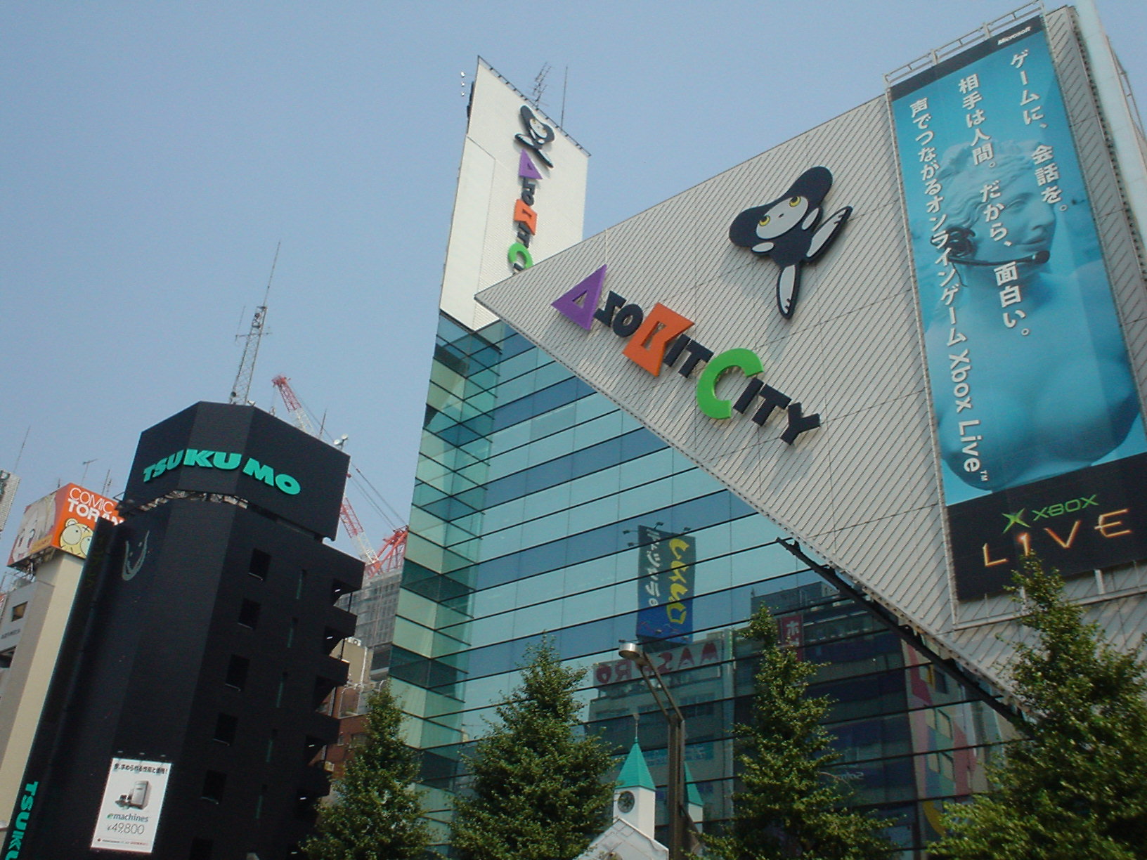 The first Asobitcity was in Akihabara main street.